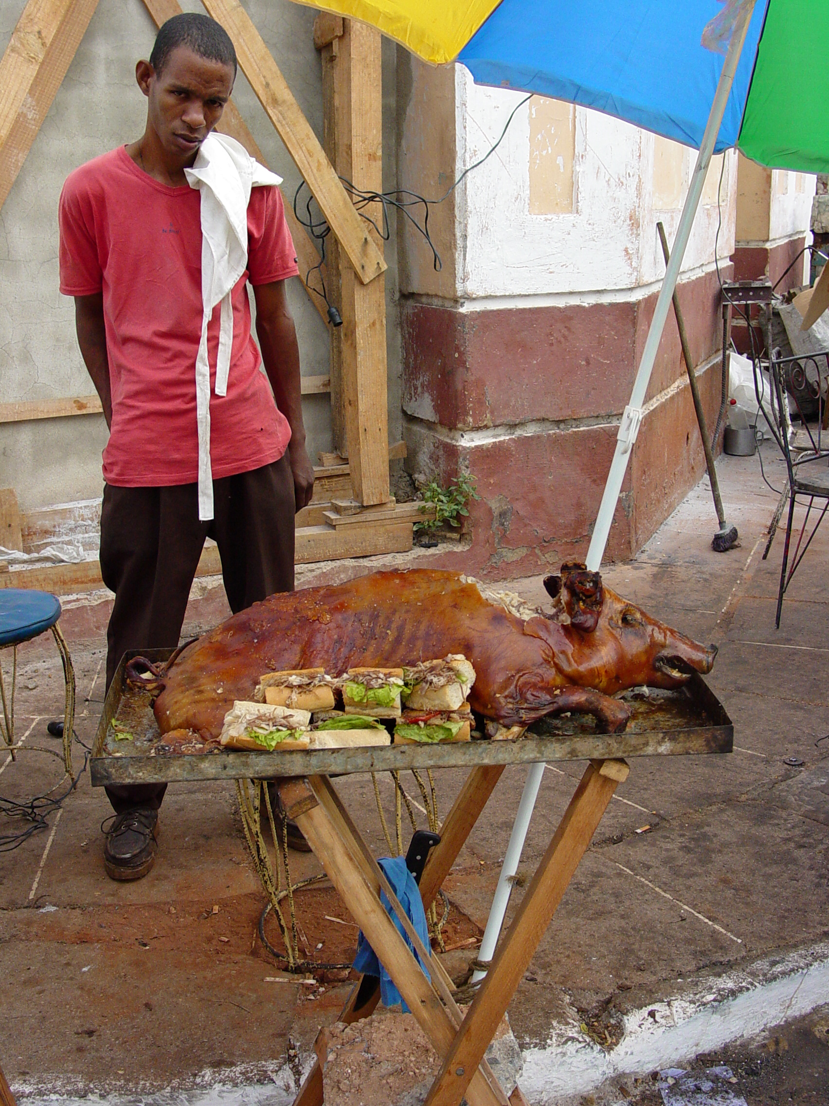 Street vendor with barbecued pig, Santiago de Cuba, Cuba. January 2003.